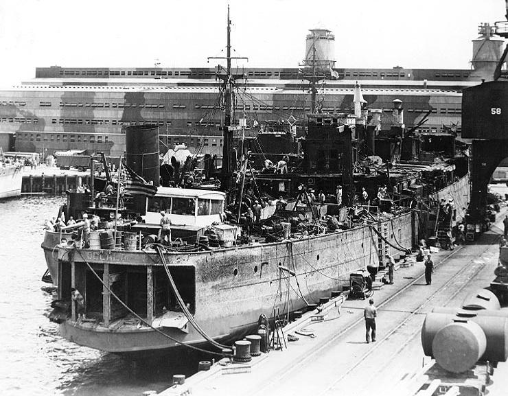 The U.S. Navy minelayer USS Oglala (CM-4) at the Pearl Harbor Navy Yard in mid-1942, after she was salvaged. The ship had been sunk alongside Pearl Harbor's 1010 Dock during the 7 December 1941 Japanese air attack.